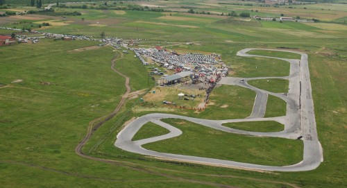 Drakon Race Track, Kaloyanovo, Bulgaria